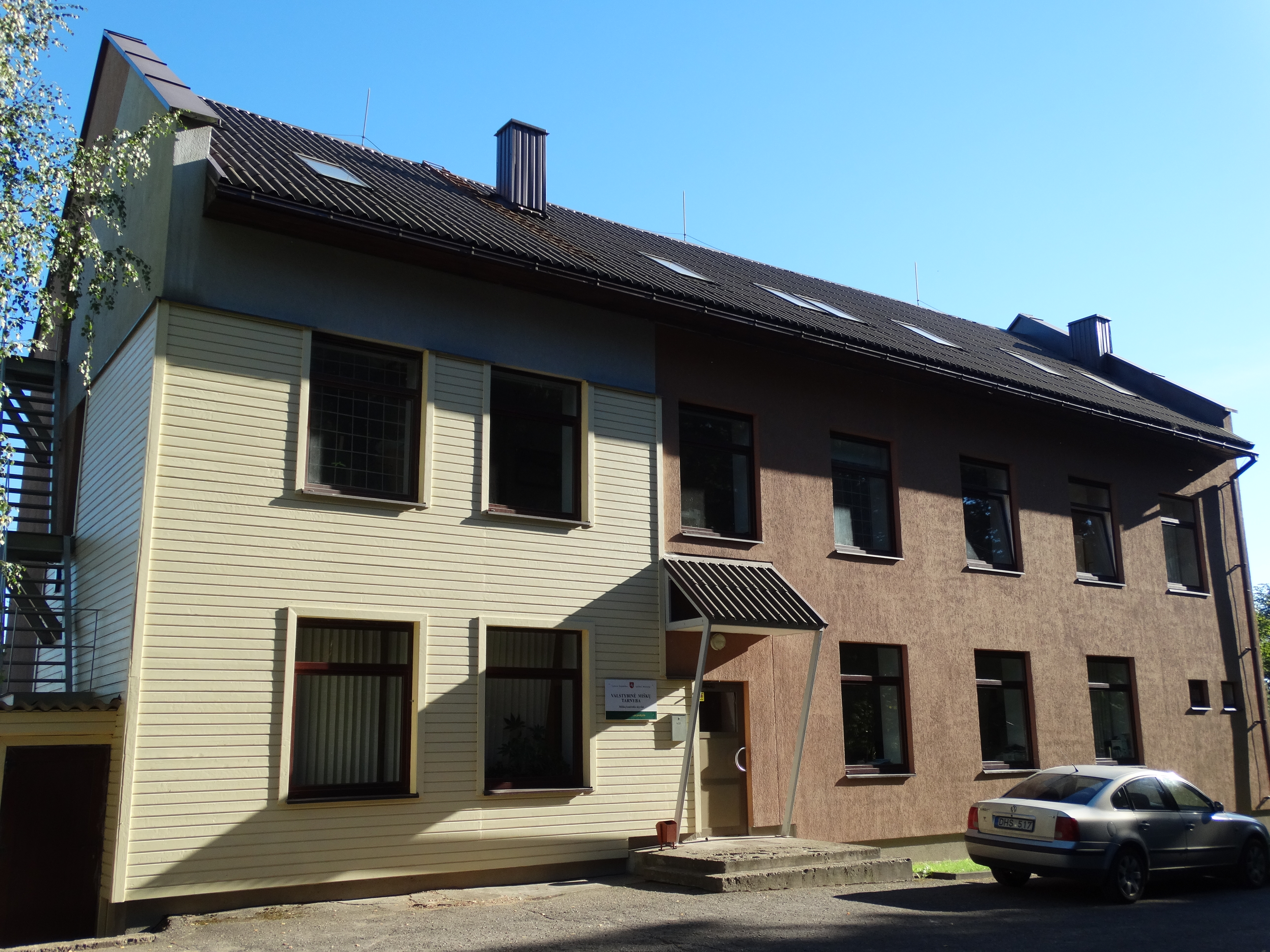 Forest enterprise, Utena, Lithuania